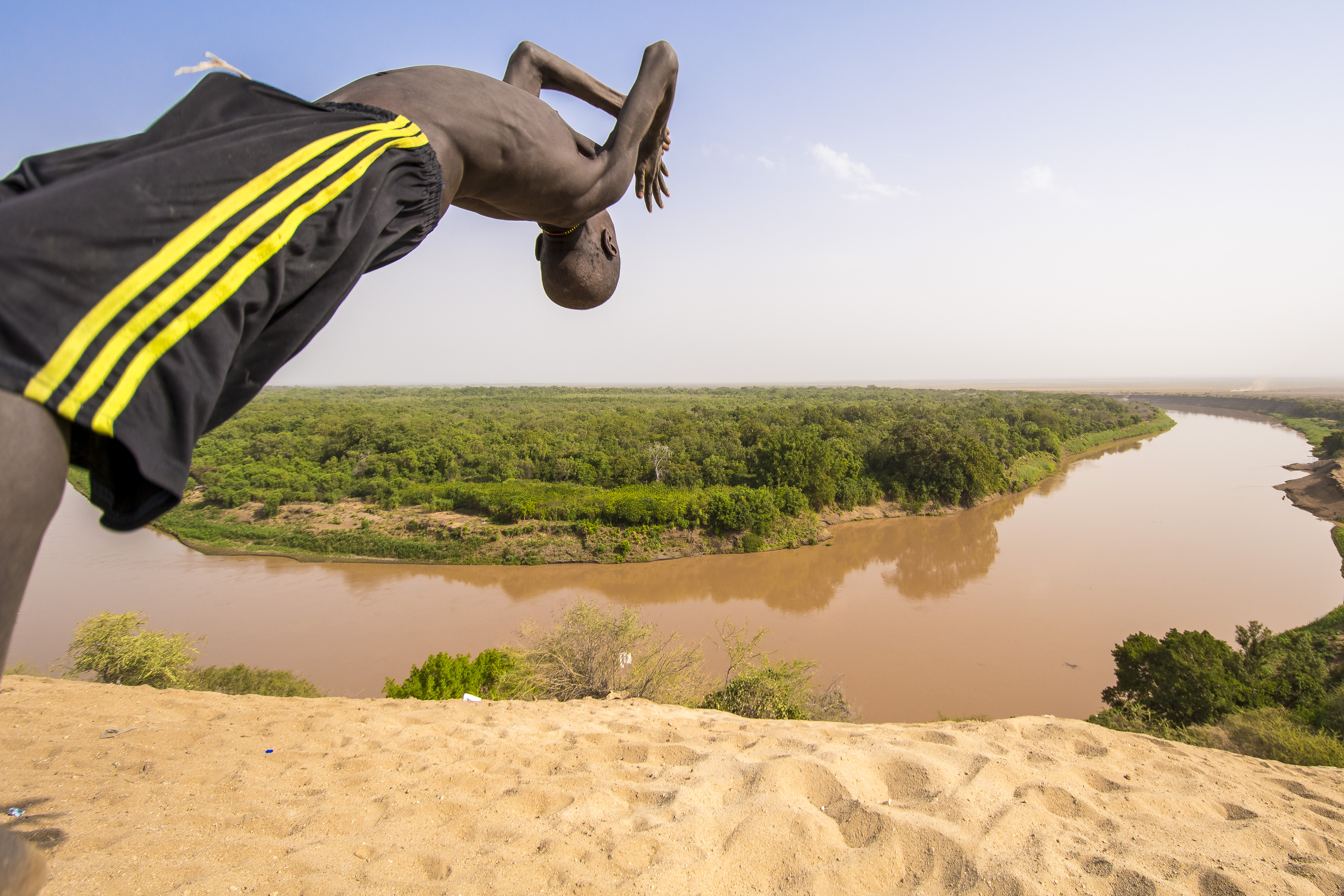 This is an image with the theme "Play" from: Ethiopia